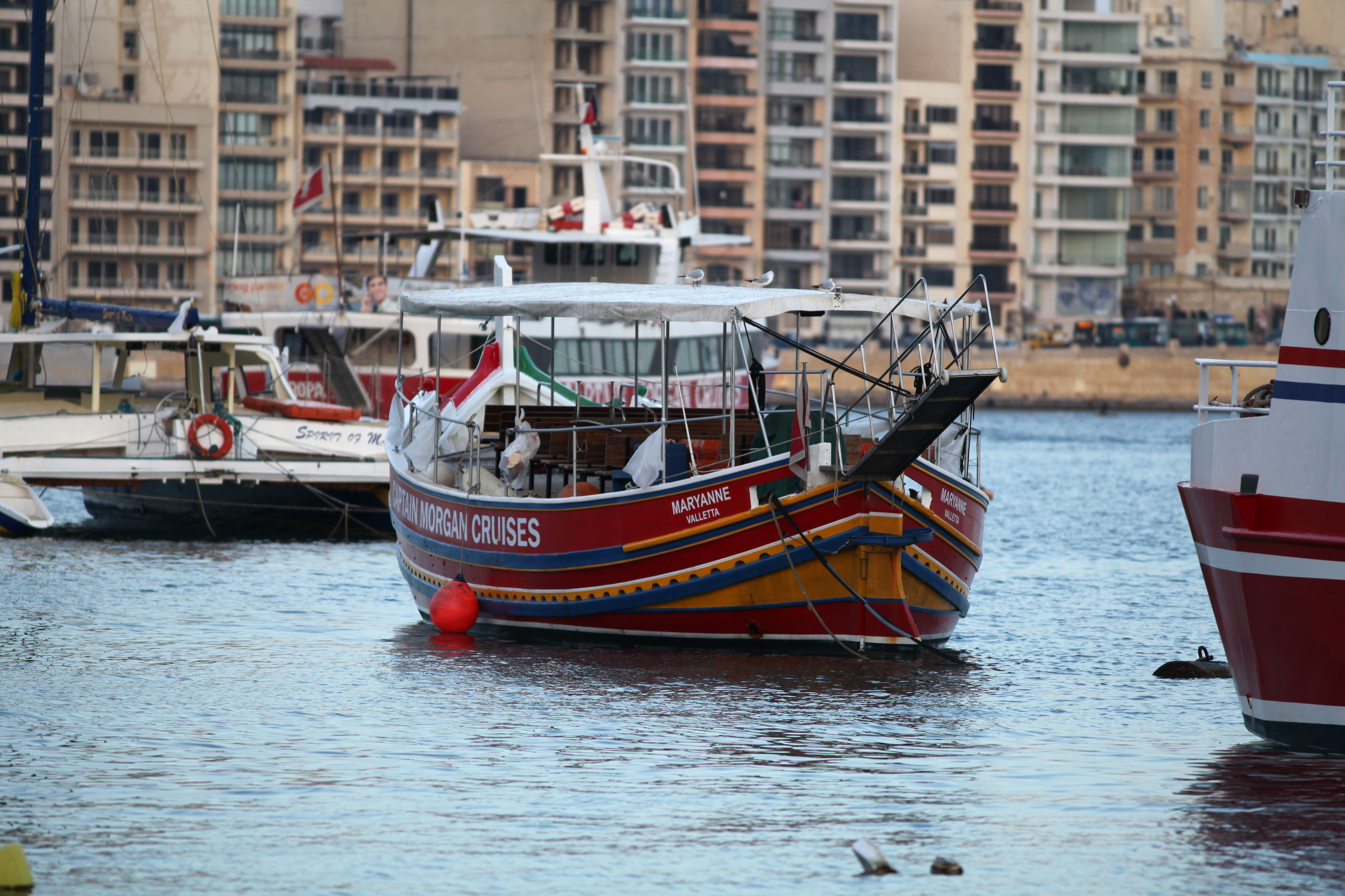 View from Triq Ix-Xatt in Gżira to Sliema, Malta